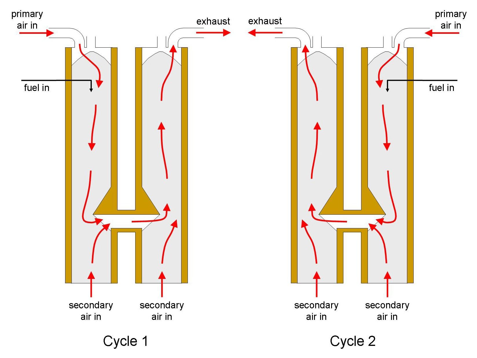 Simplified diagram of regenerative shaft lime kiln.